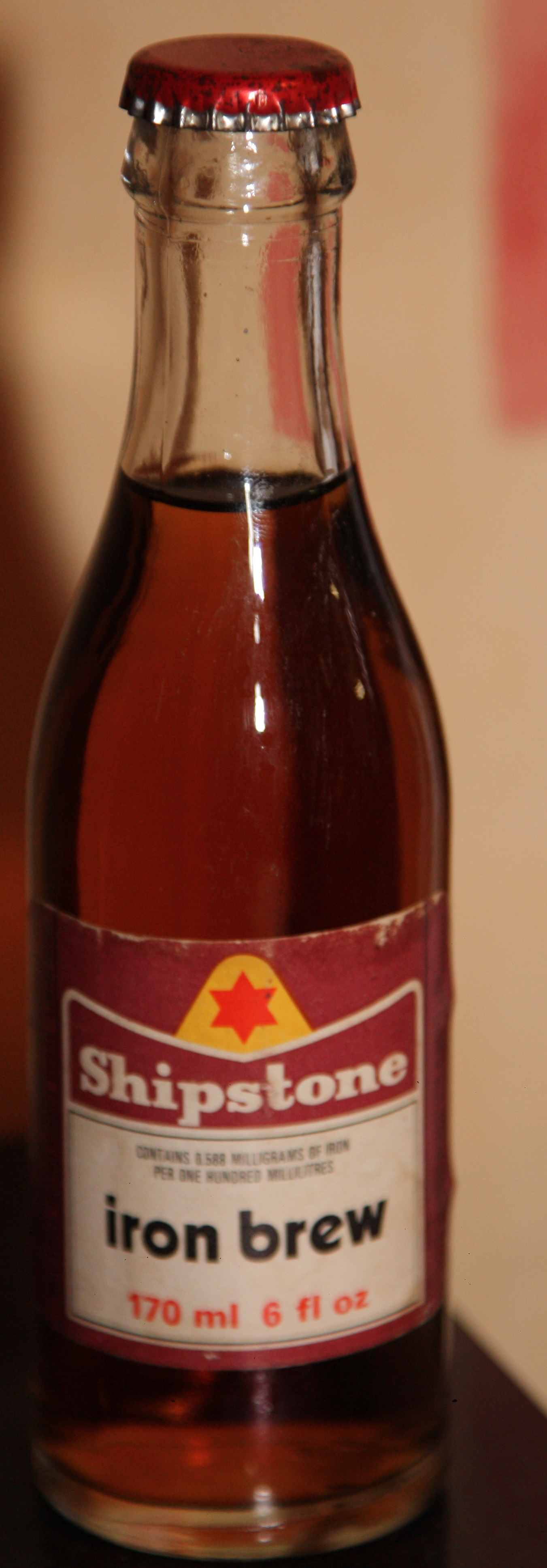 Last known surviving bottle of Shiptones Iron Brew - unopened as at Dec 2011